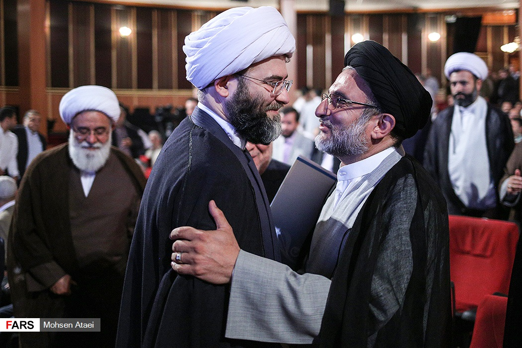 Reverence and introduction of the Head of the Islamic propaganda organization